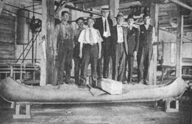 Haskell canoe weight test - 3200 pounds supported by 57 pound Haskel canoe. Men on the canoe are Otto Nordholt, Charles Bowen, J. W. Beiger, G. R. Meyercord, Henry Haskell, J. R. Shaw, and Walter Sinclair.